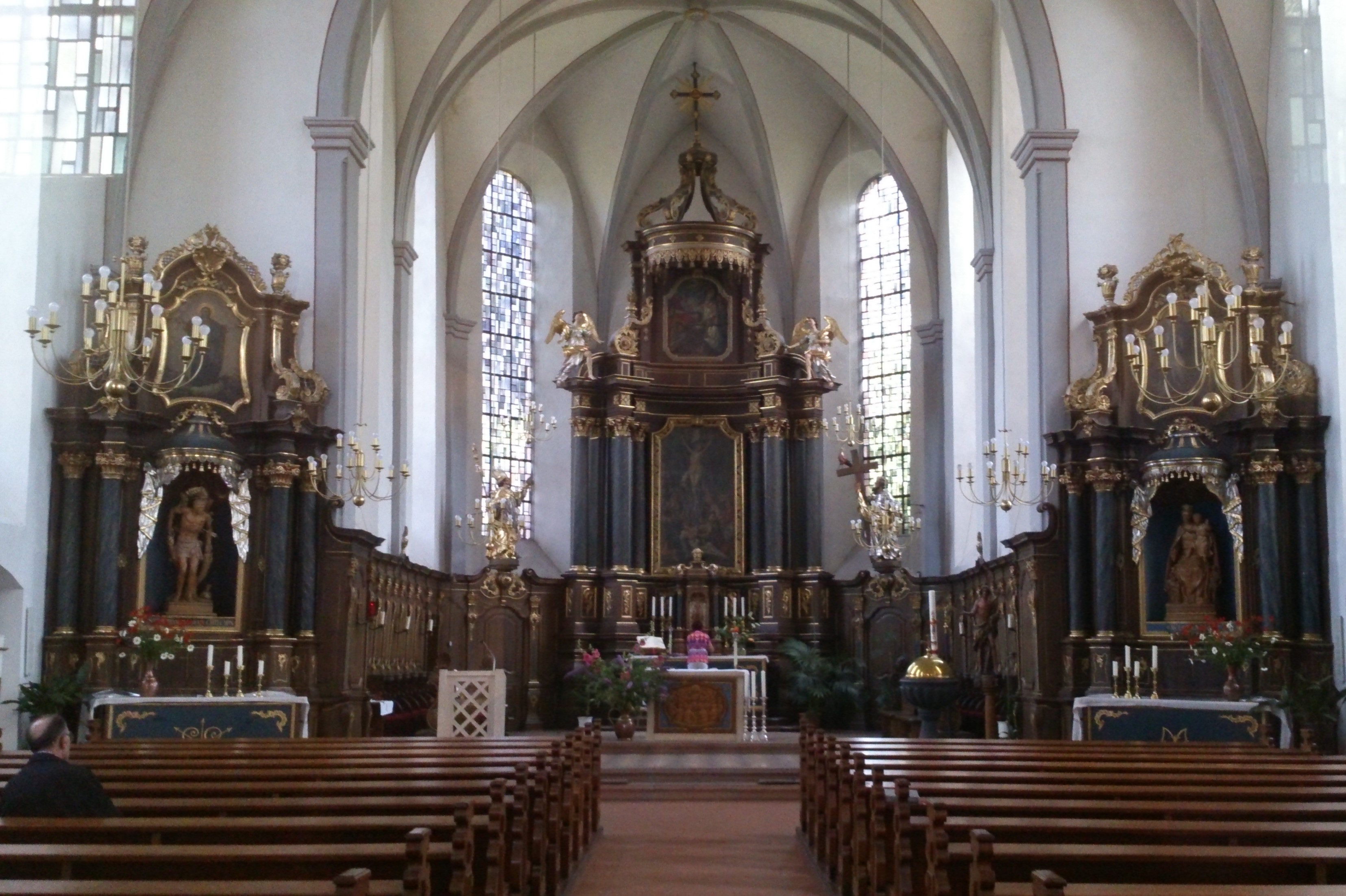 Interior of the church St. Remigius in Kröv.